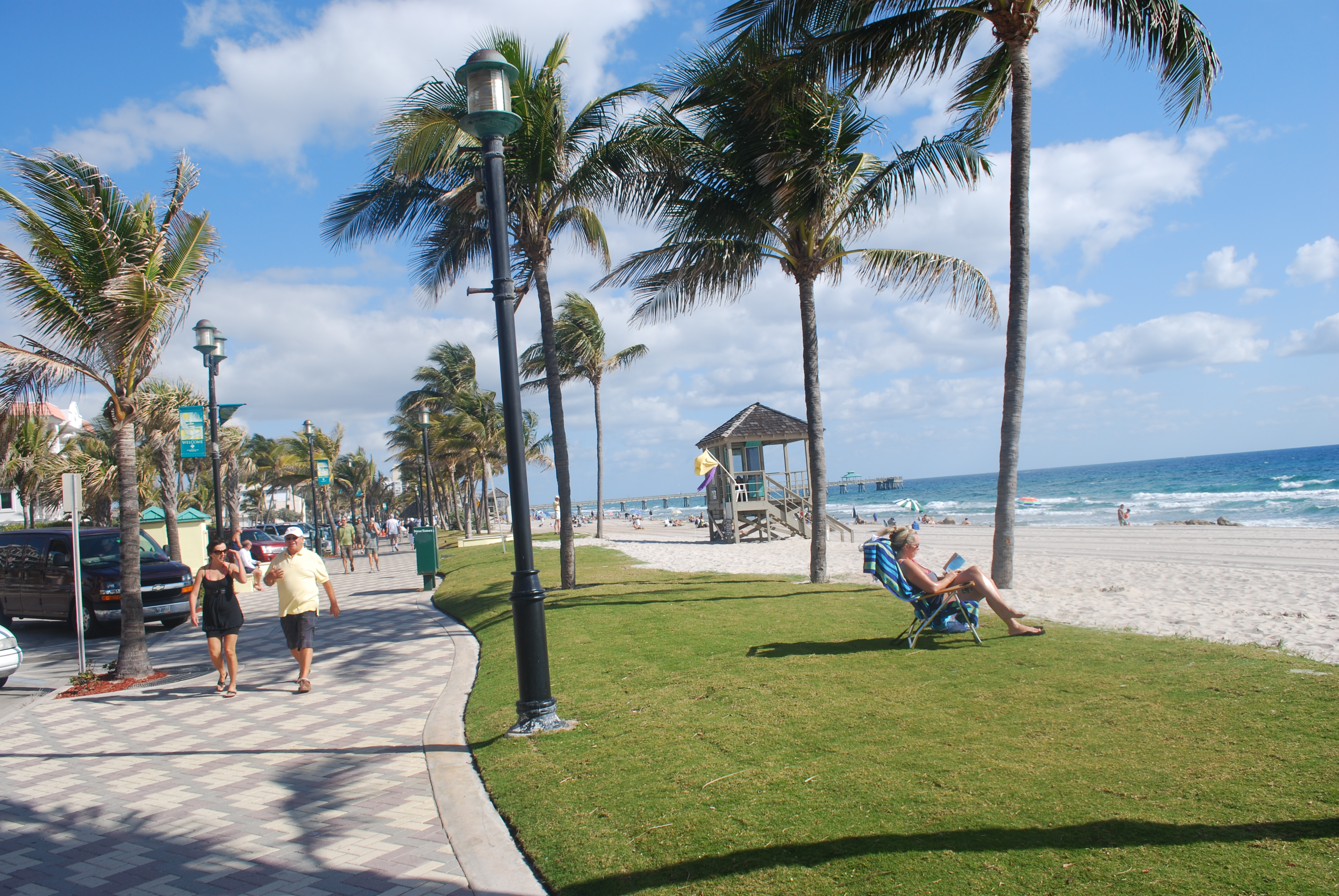 Deerfield Beach, Florida